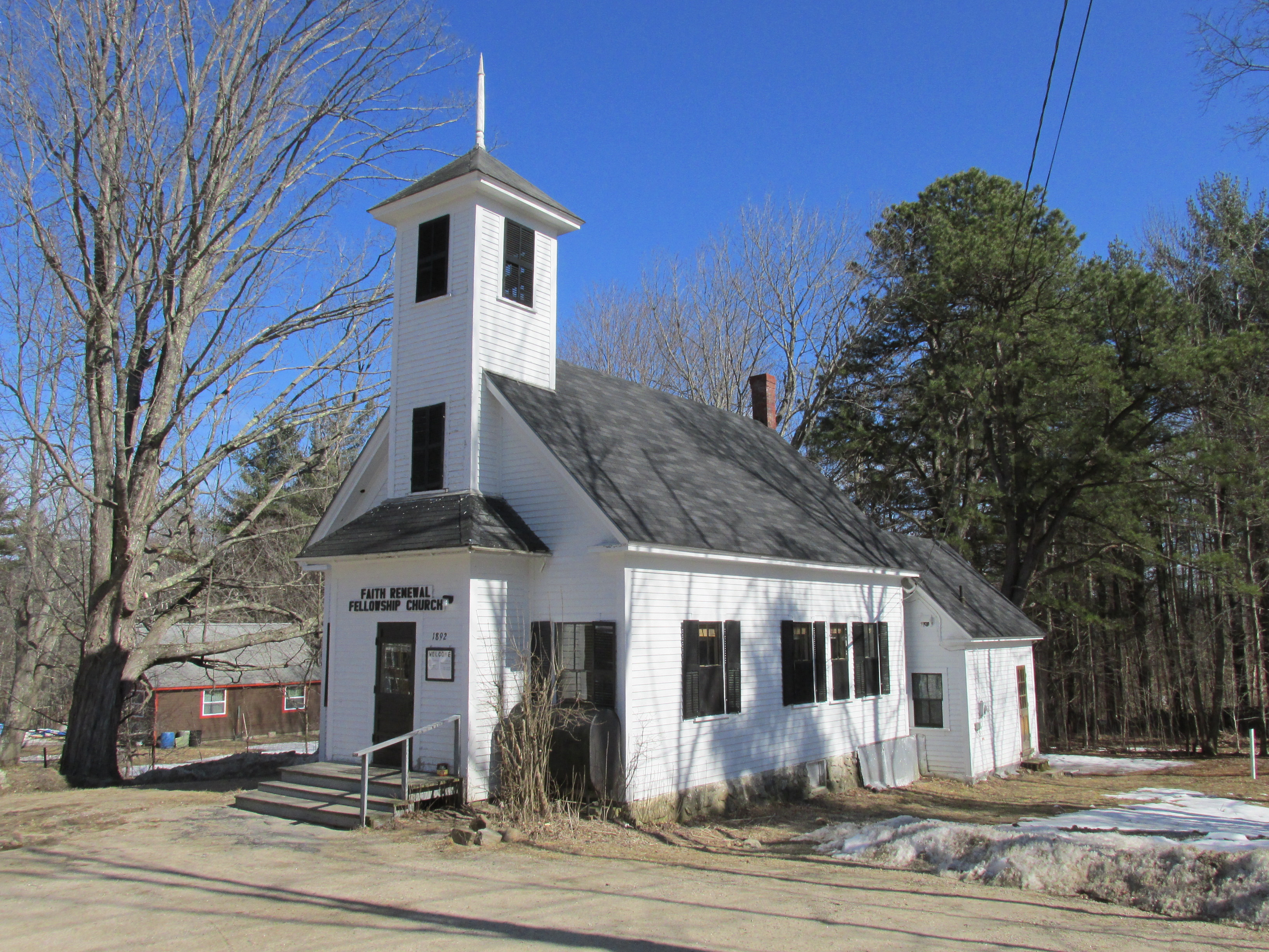 Faith Renewal Fellowship Church, East Wakefield New Hampshire - 2013